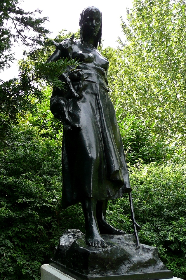 The Goatherd's Daughter (1922) by Charles Leonard Hartwell in St John's Lodge Garden, Regent's Park, London.